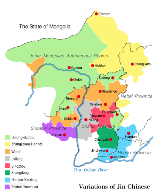 jin chese-language